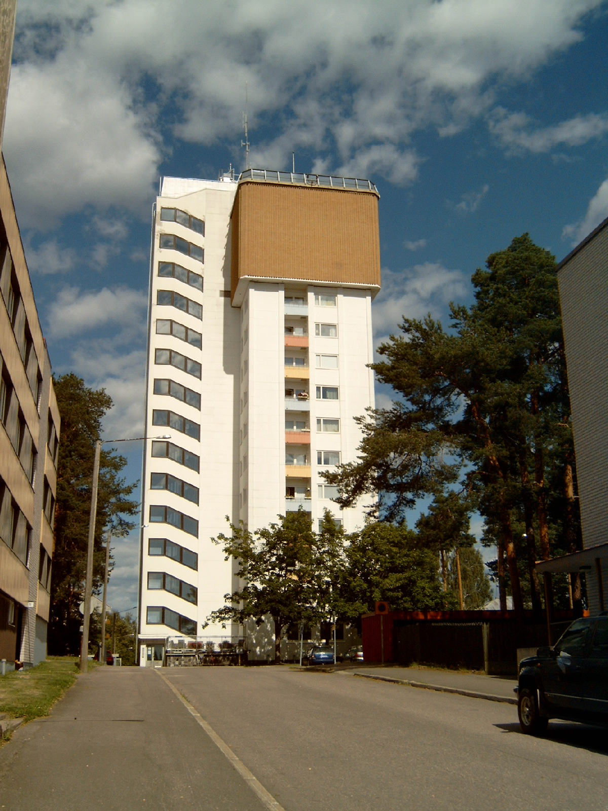 Water tower of Varkaus, Finland